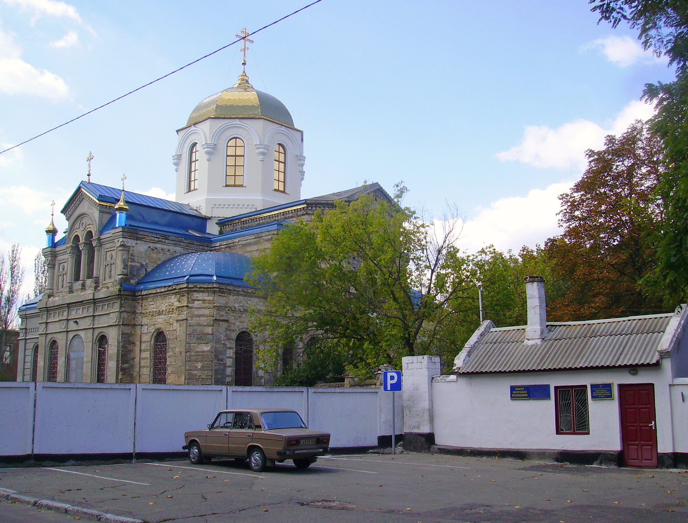 Mykolaiv. Alexander Nevsky Church